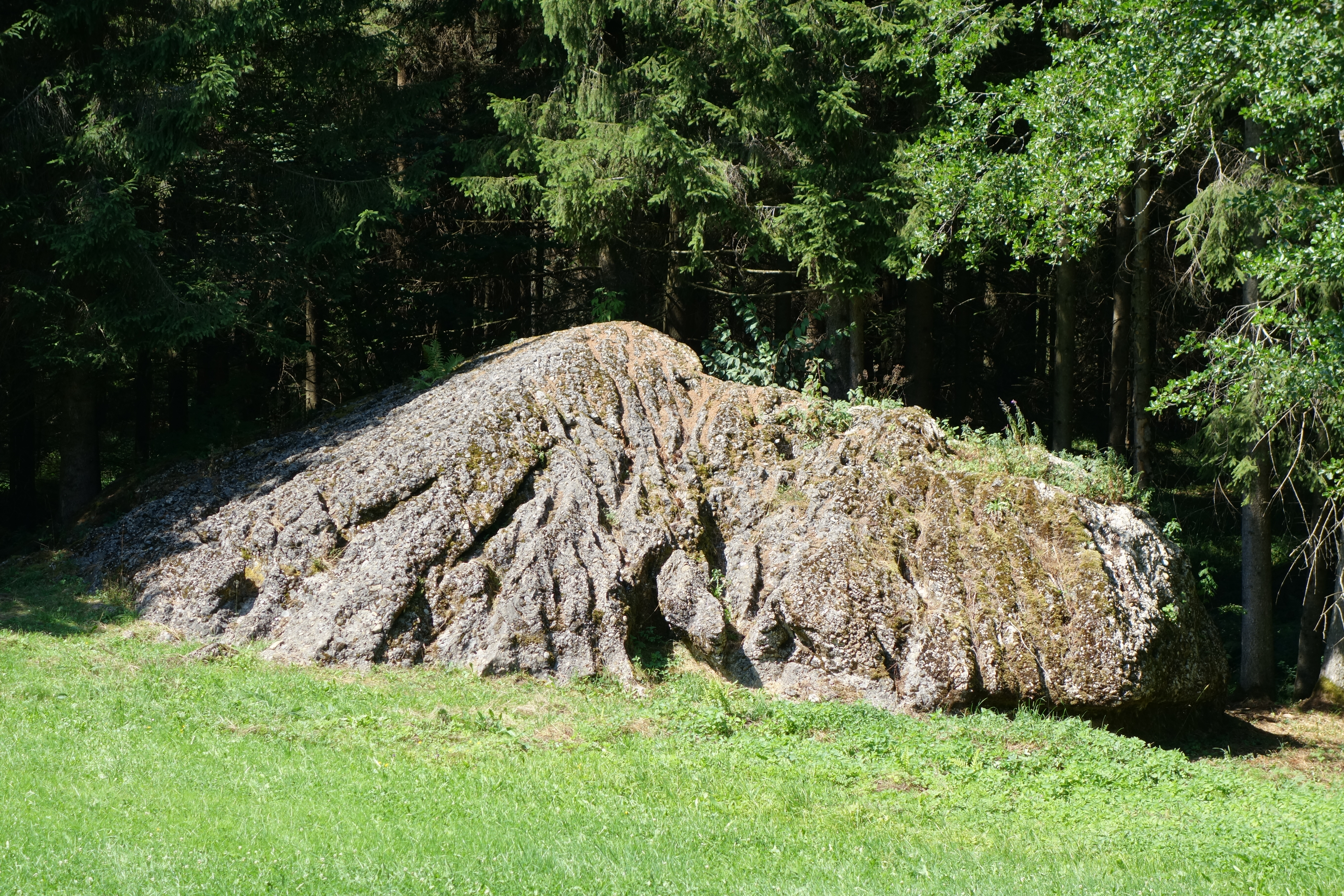 Morauchelstein, a glacial erratic in Kempter Wald.